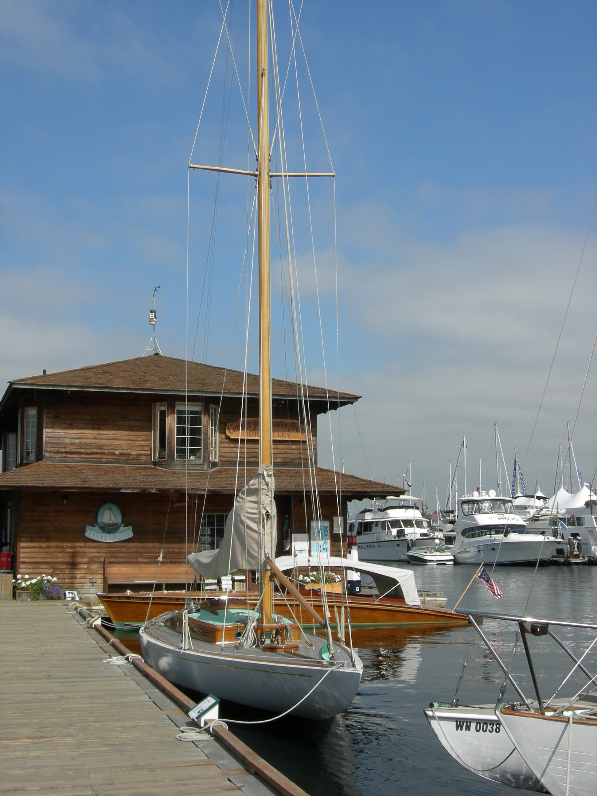 The R-class sloop Pirate, moored at the Center for Wooden Boats, Seattle, Washington, USA is listed on the National Register of Historic Places, ID #00000968. There is an extremely detailed article about this boat in the September/October 2006 issue of WoodenBoat magazine, p. 38–47.